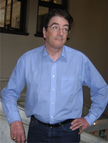 Graham Masterton (b. 1946), British writer